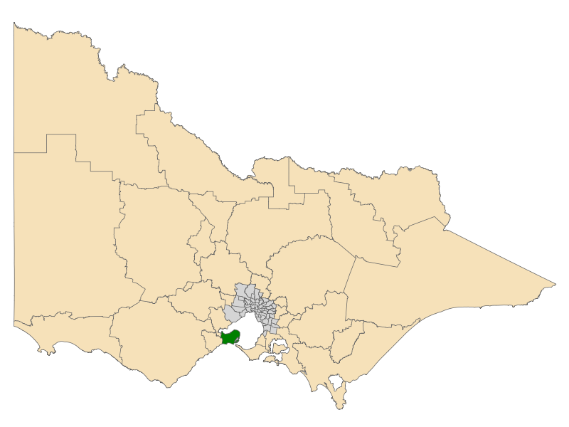 Location of the Electoral District of Bellarine (dark green) in the state of Victoria, Australia. These boundaries were used for the Victorian state election on 29 November 2014.